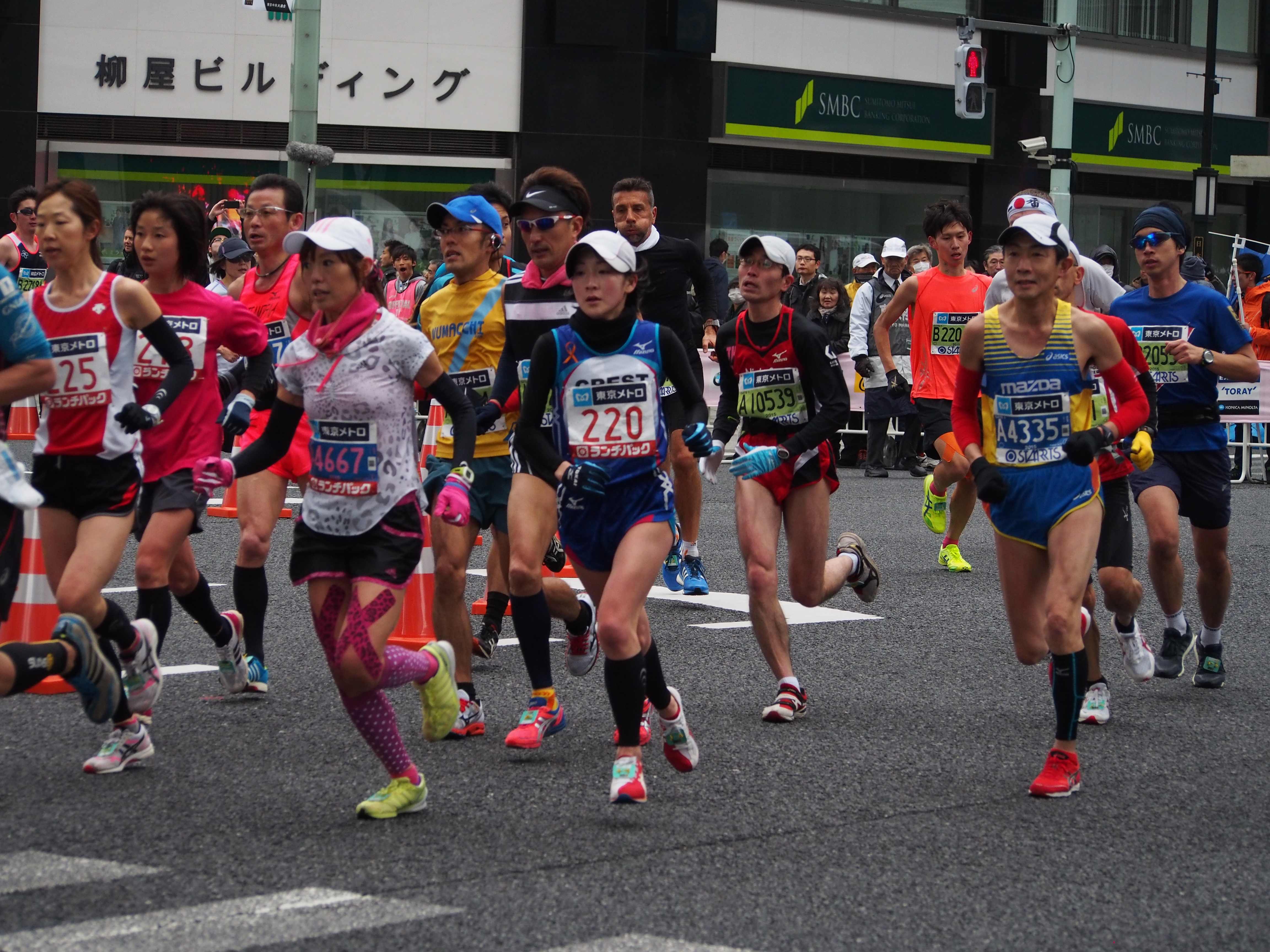 2015 Tokyo Marathon - Japanese runners